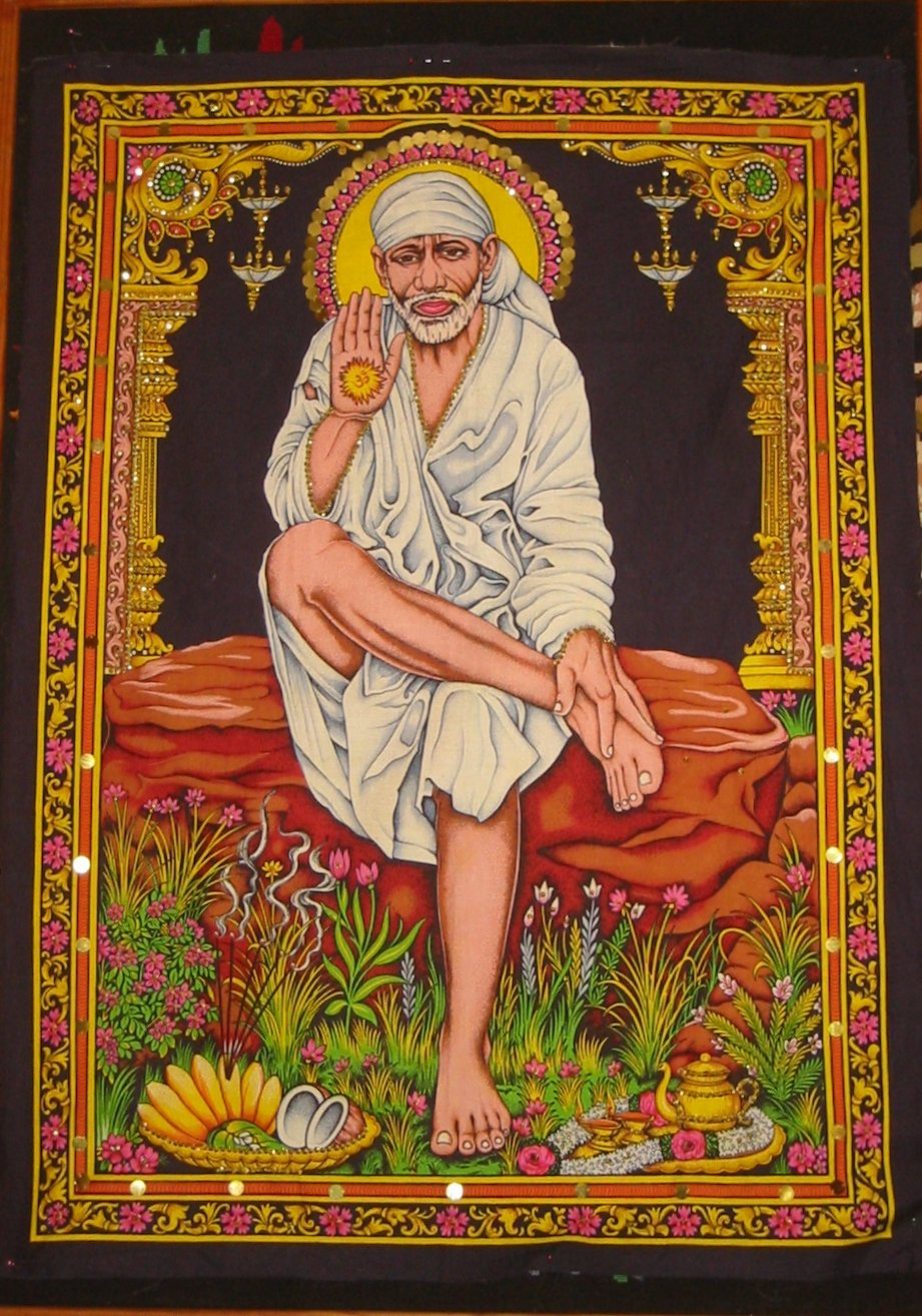 Embroidery of Sai Baba.